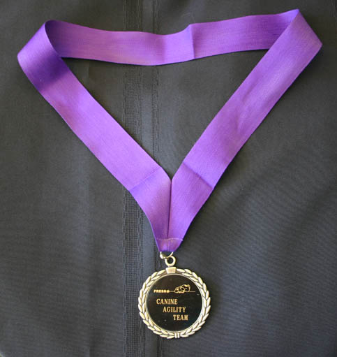 Sample of an award ribbon and medal to be worn around the neck.